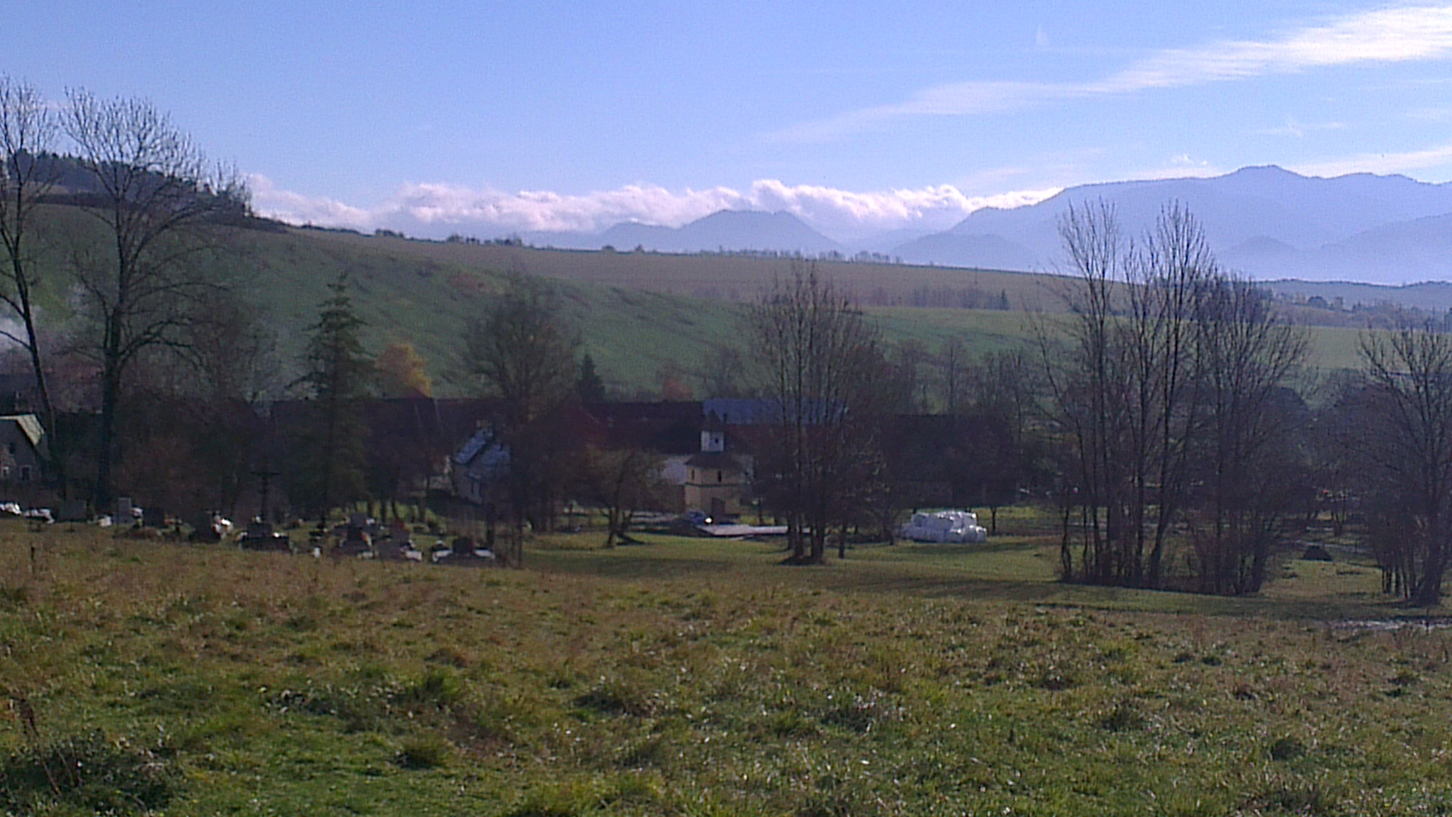 walk to the lawn above the village and you can get this view